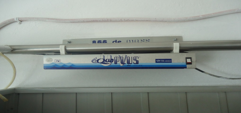 UV lamp